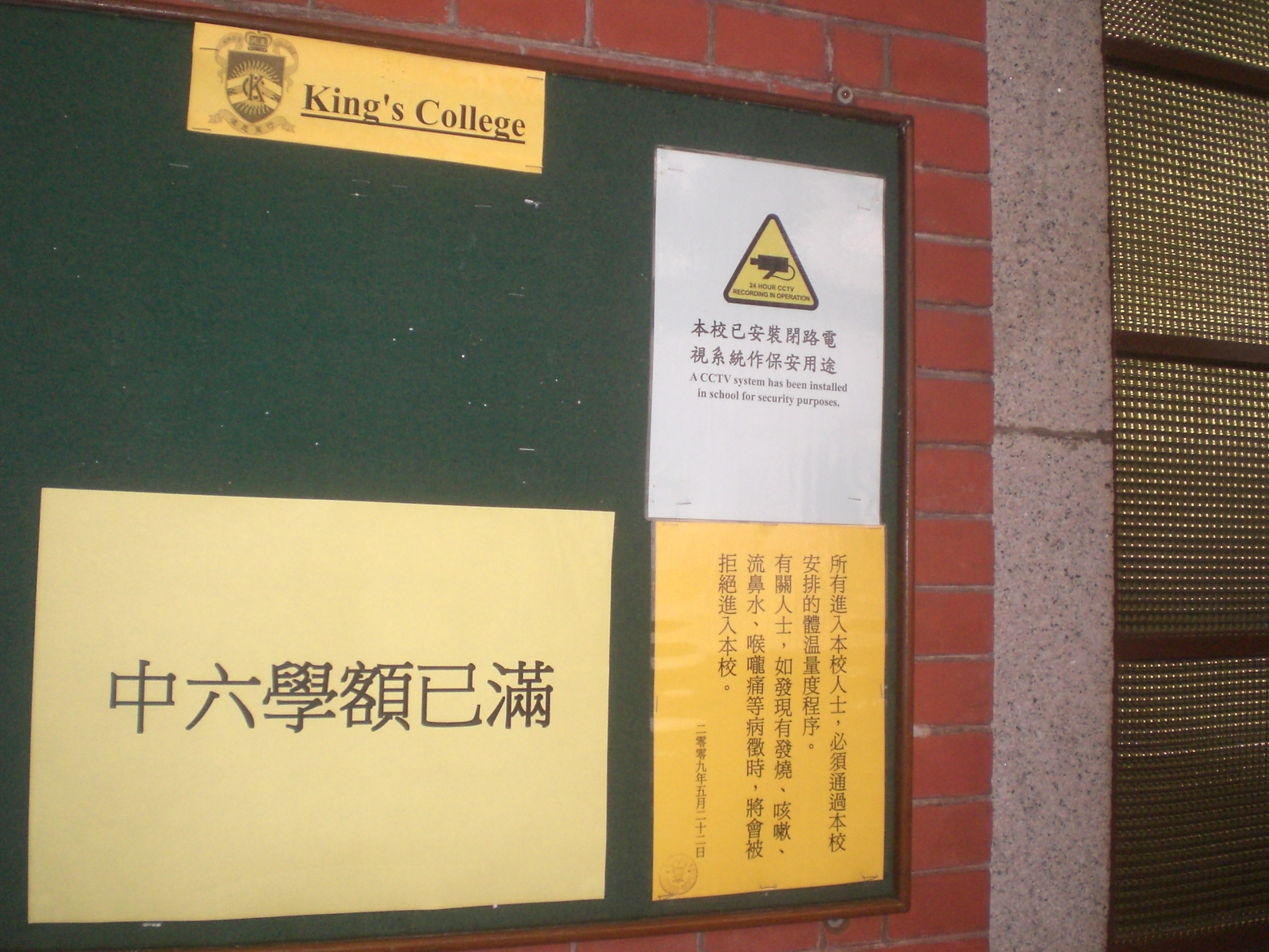 英皇書院 中六 公告